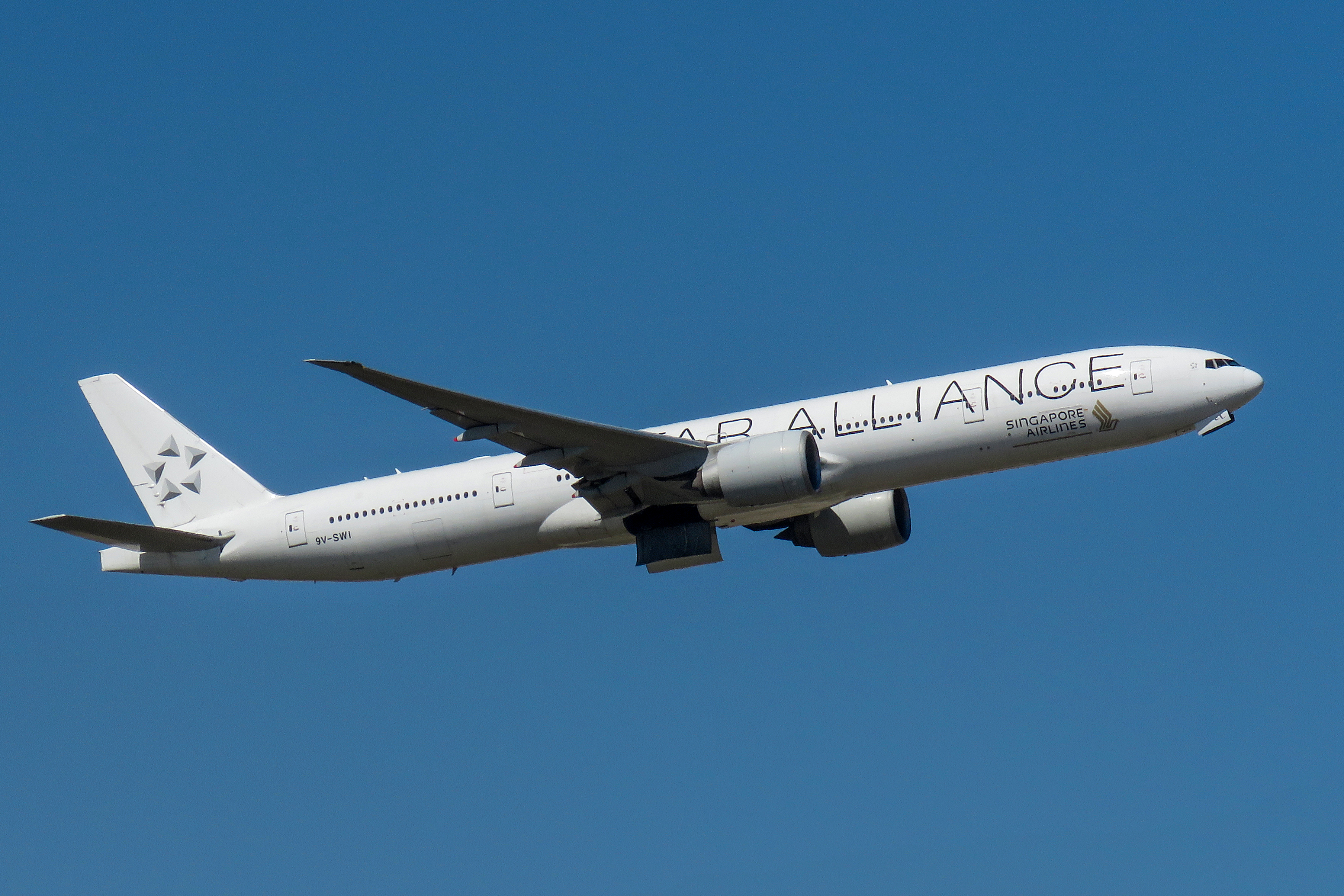 Singapore 805 to Singapore, using this "White Star".